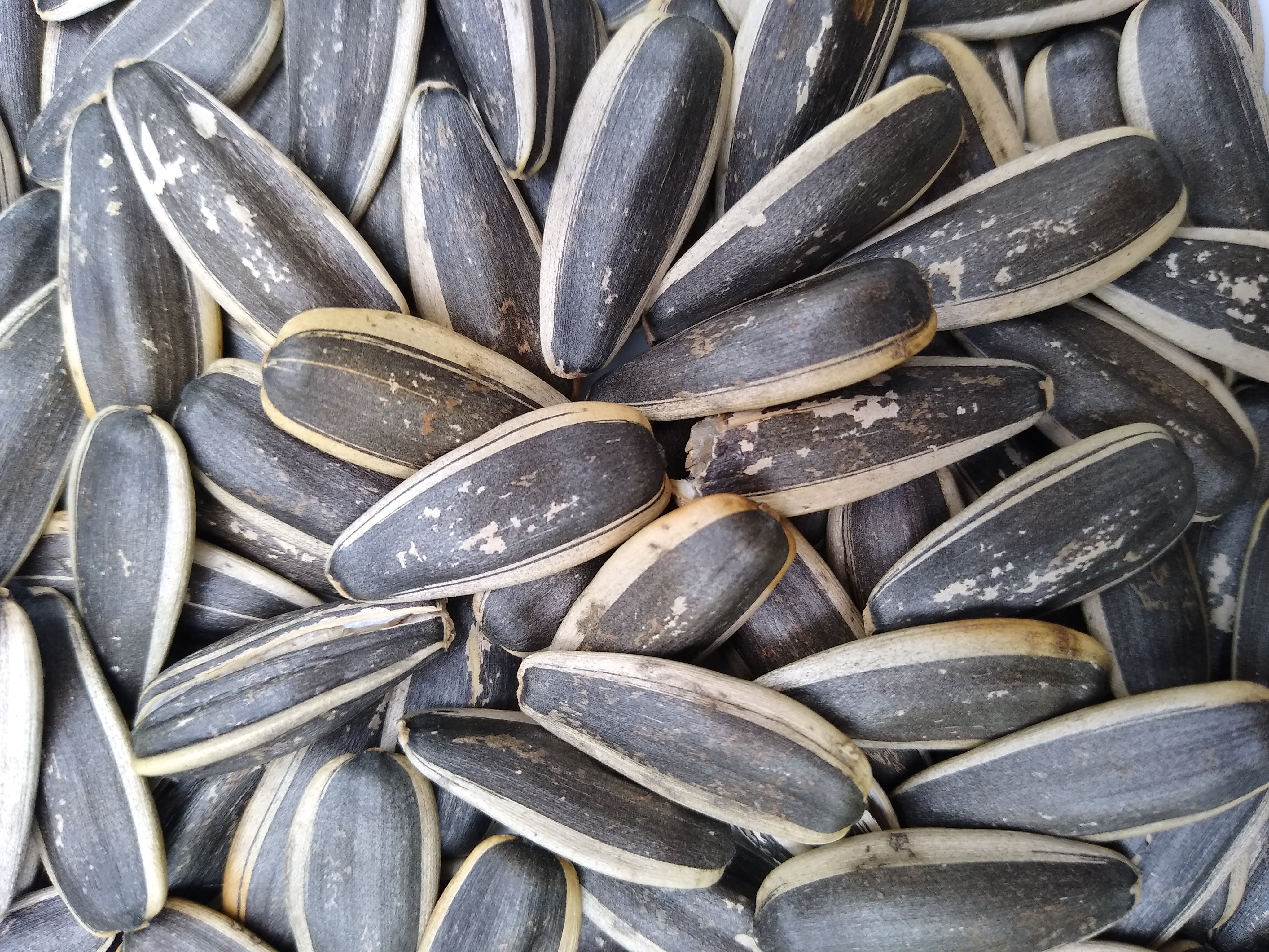 Sunflower seeds (原味瓜子) sold in China.